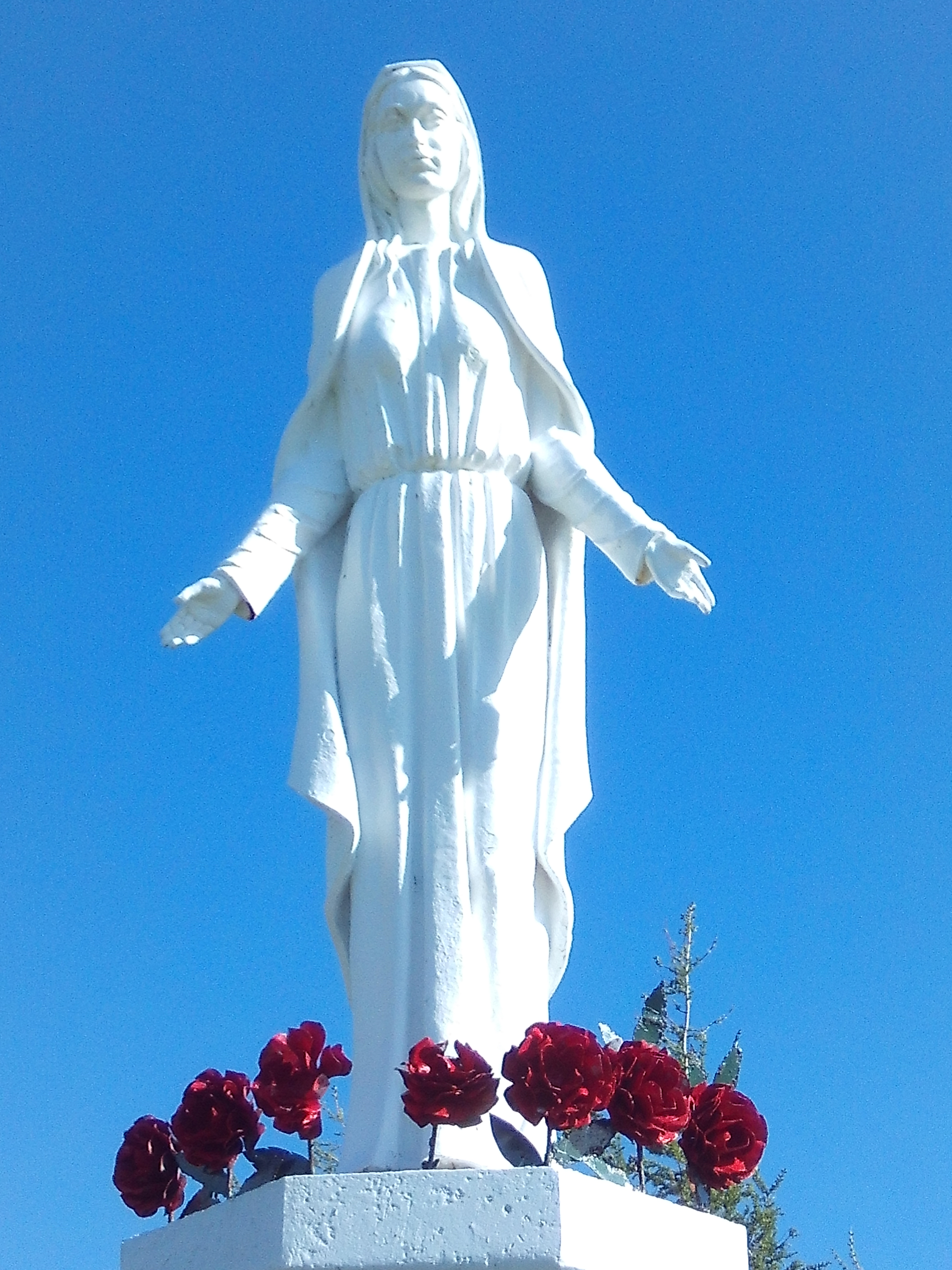 The Virgin Mary statue in Marystown, Newfoundland and Labrador.